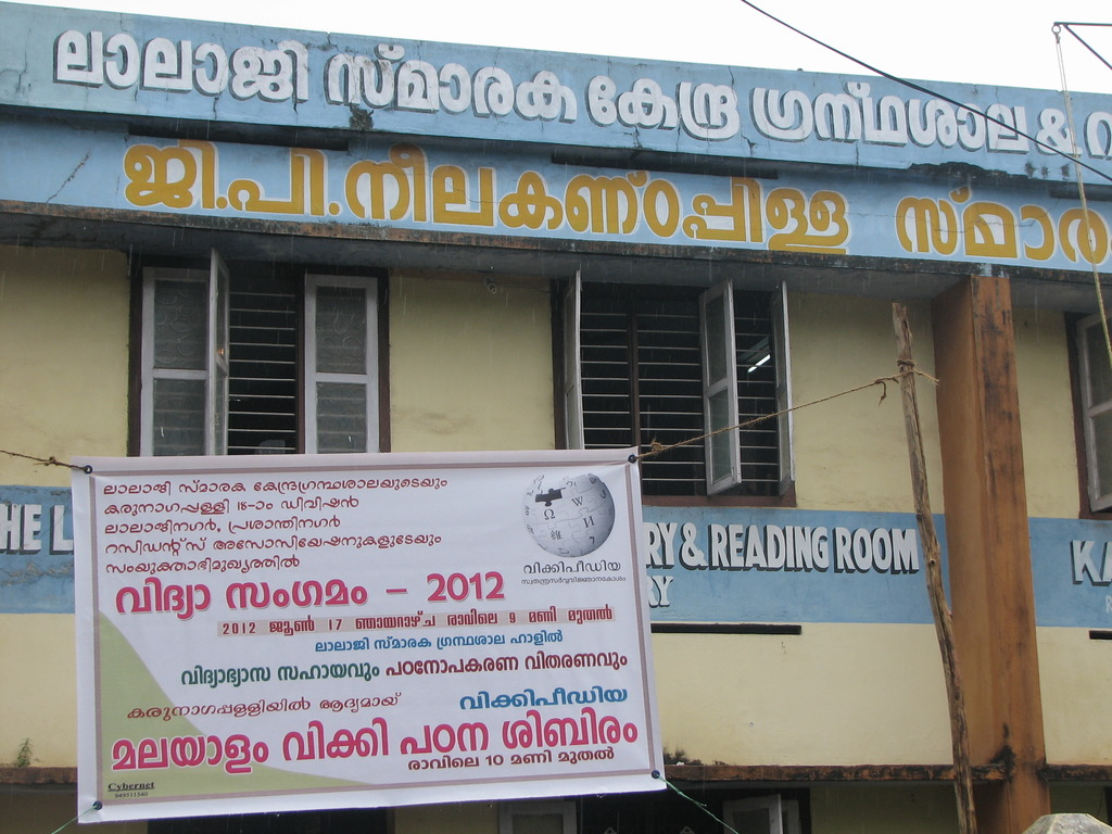 Lalaji library, Karunagappally